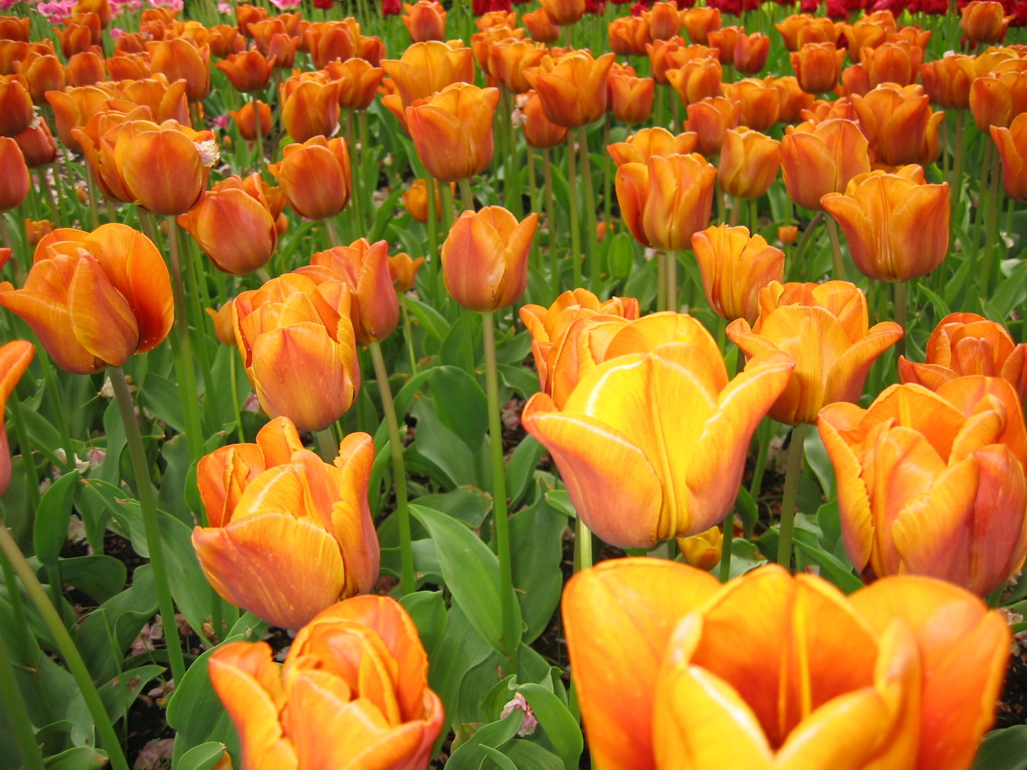 Tulips from Keukenhof Gardens, Lisle, Holland.